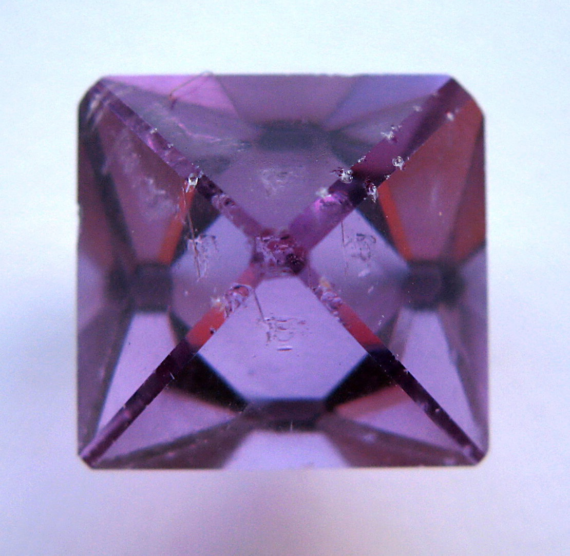 single crystal of a synthetic chrome alum with common octahedral shape, top view